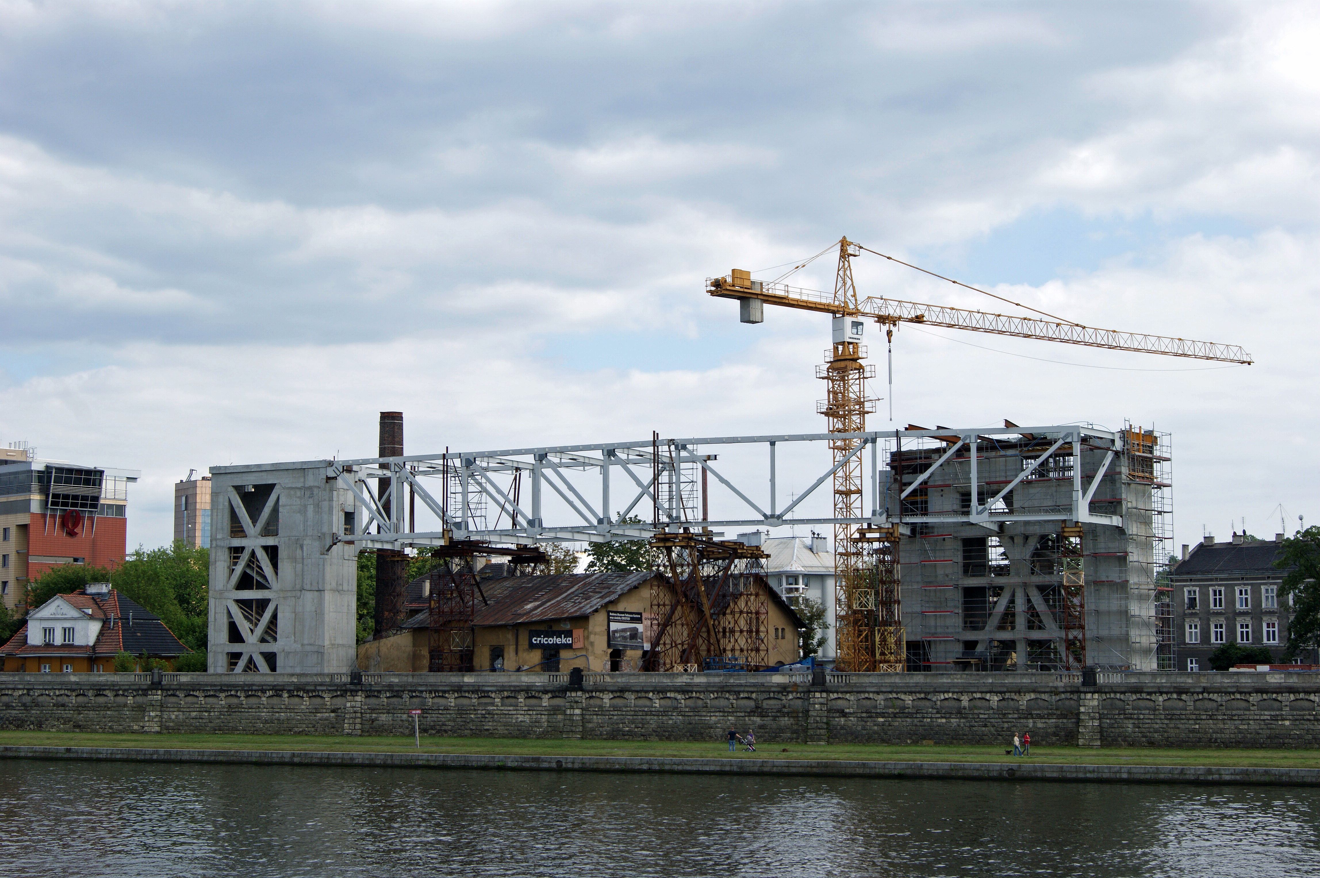 Museum of Tadeusz Kantor (under construction), 4 Nadwislanska street, Podgorze, Krakow, Poland